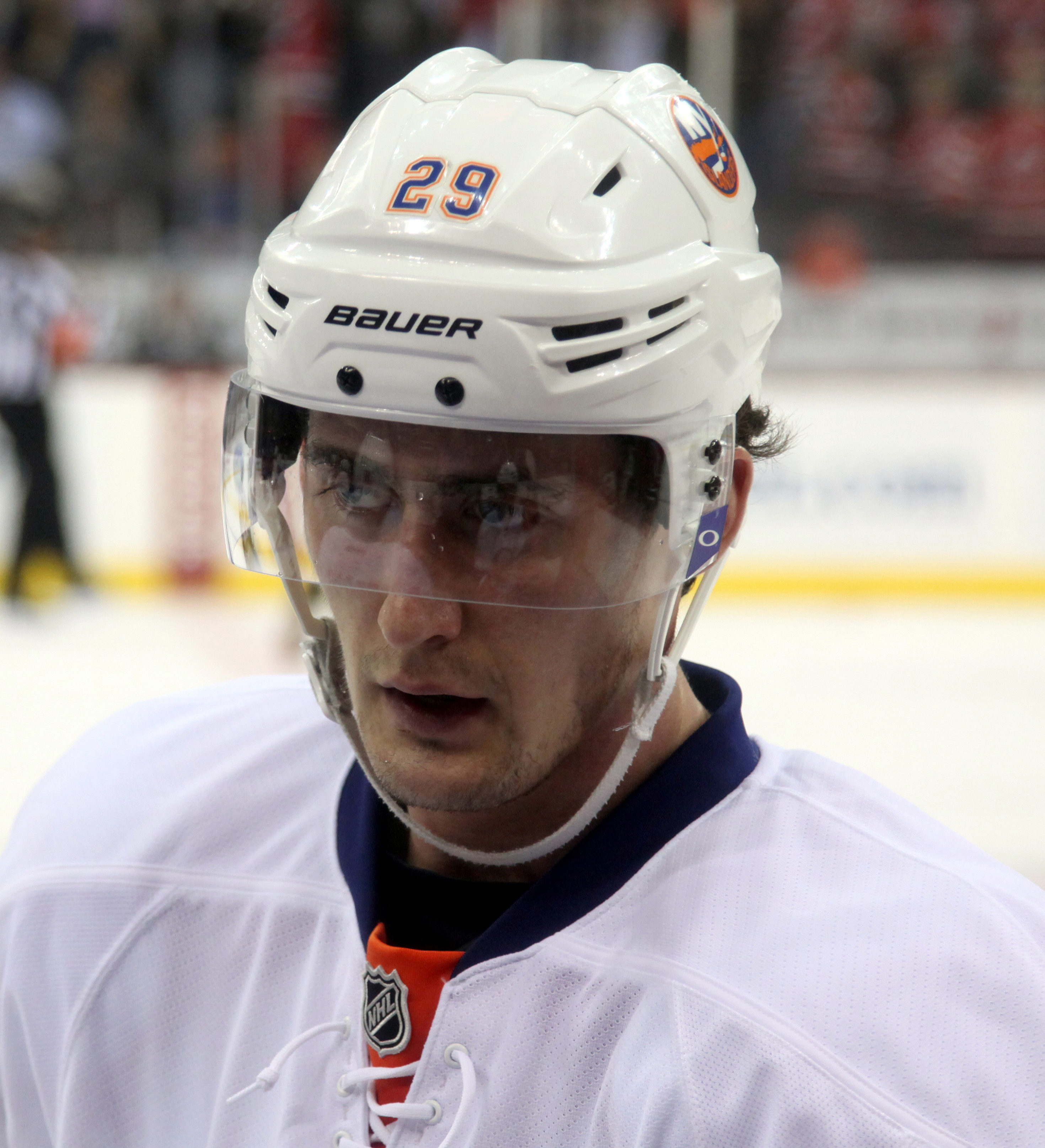 Brock Nelson in 2014.